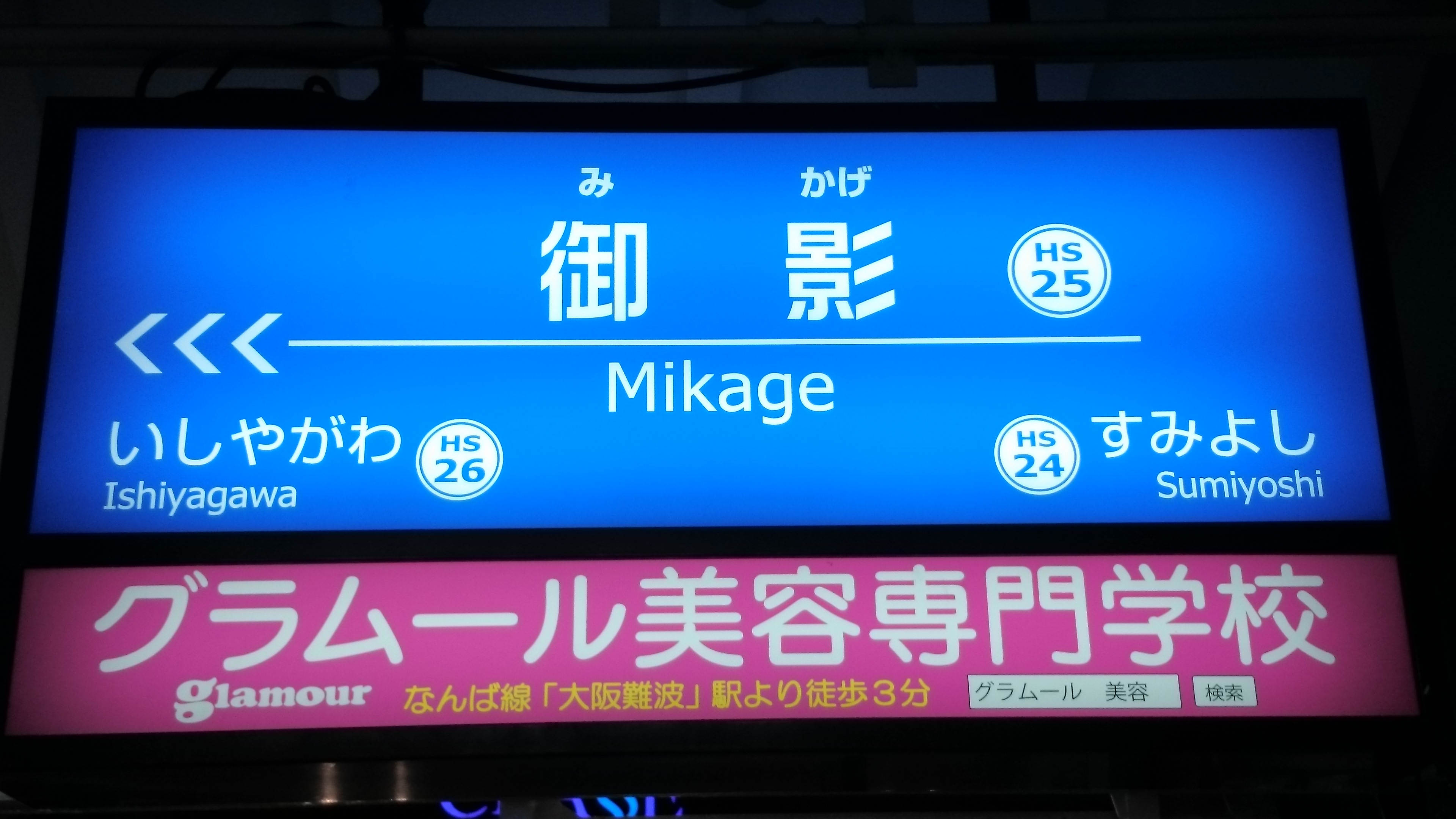 Station sign for Hanshin Mikage Station with the station number